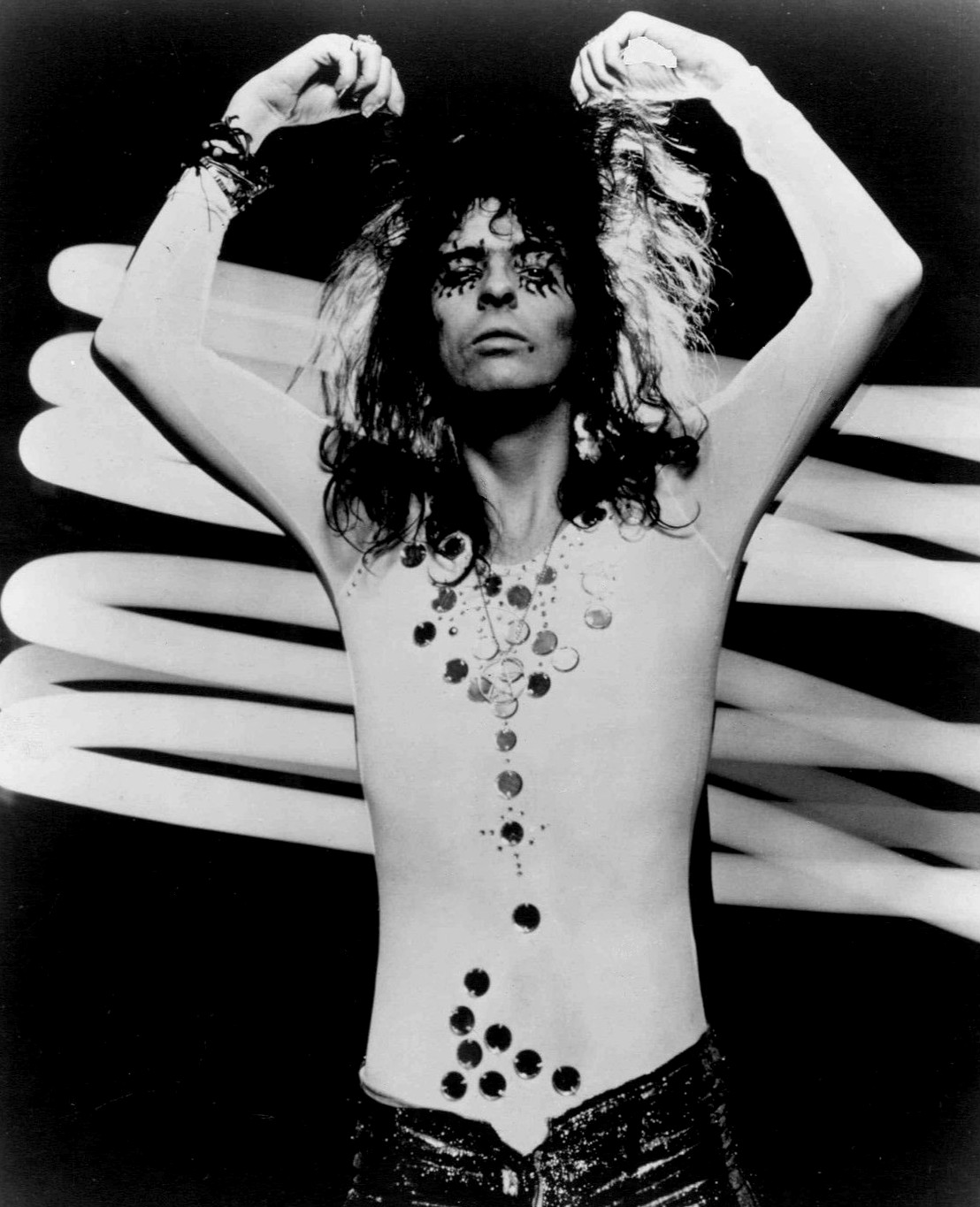 Photo of Alice Cooper.